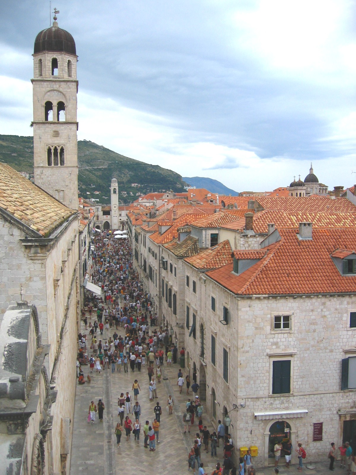 Stradun, main street in Dubrovnik, Dalmatia, Croatia